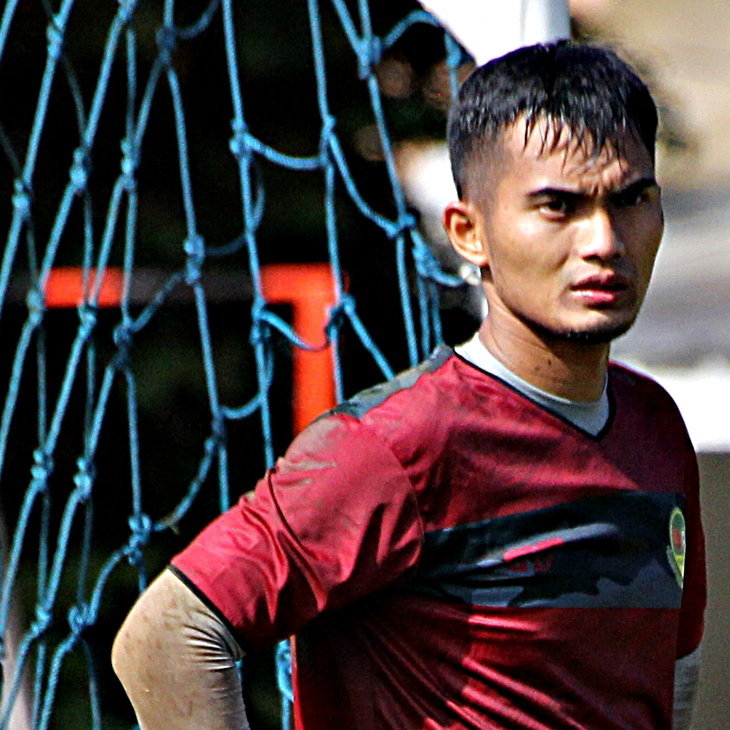 Dhika Bhayangkara